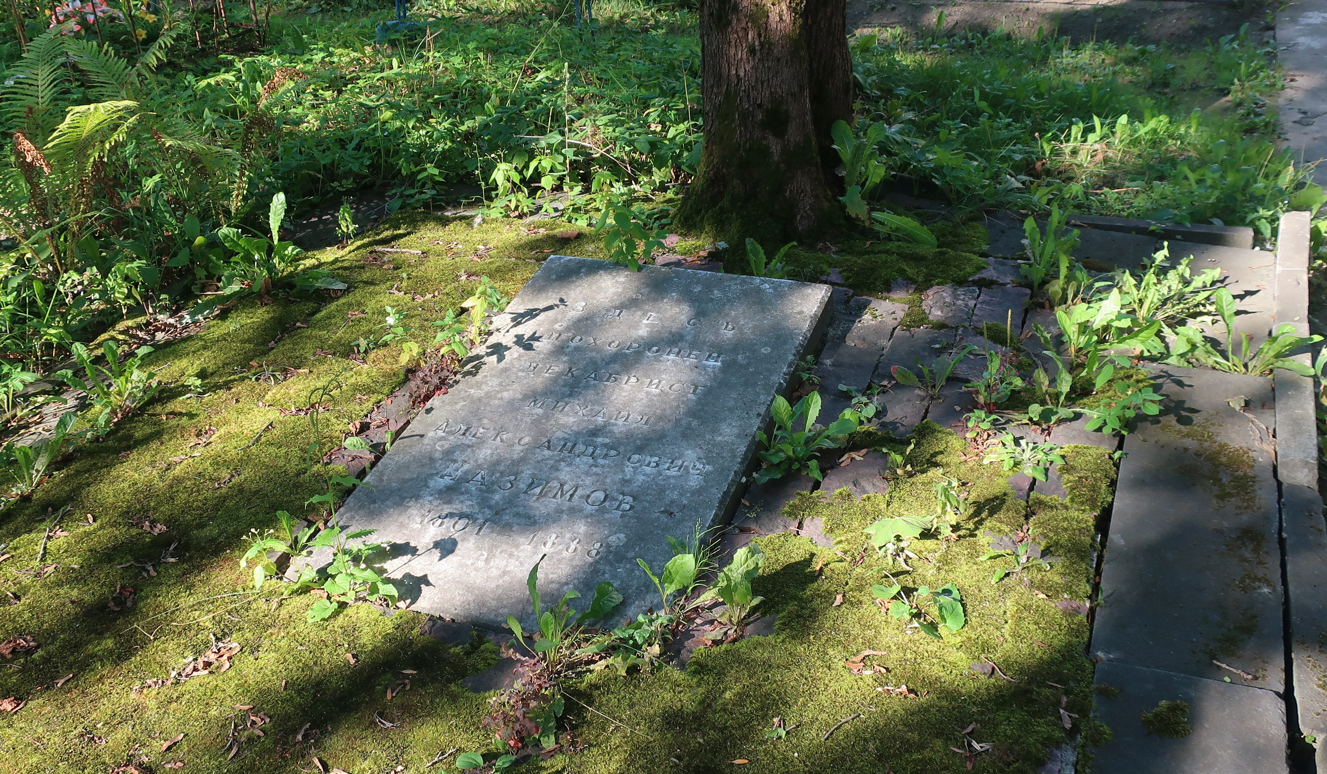 Grave of M. A. Nazomov at Dmitrievskoe cemetery in Pskov